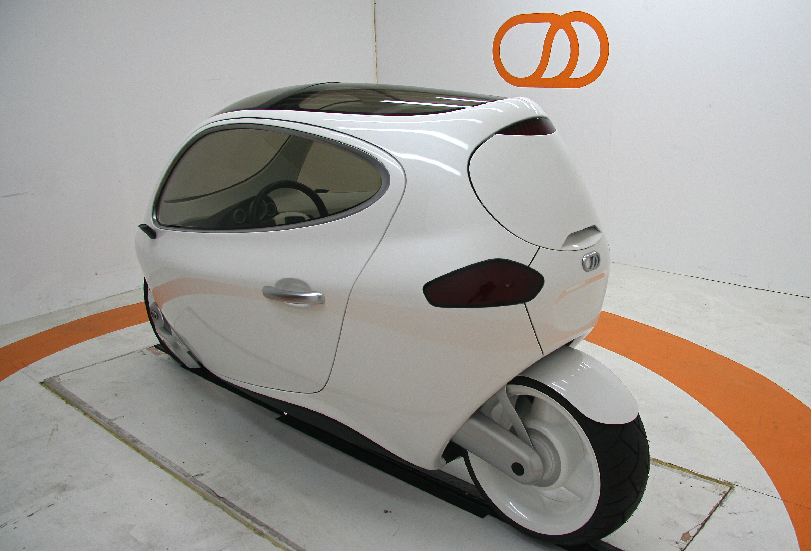 Lit Motor's C1 prototype is built with one-tenth of parts use in an average car. "Cars typically have around 24,000 parts," said Danny Kim, founder, president and CTO of Lit Motors. "If you drive an Audi, it has 40,000 parts. We only have 2,239, making the C1 easier to manufacture. That's why we can make it affordable for the mass market."